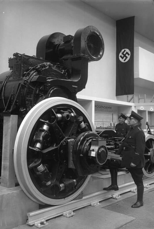 Bogie of 2400 kW german electric locomotive E18 shown at "Deutsches Volk-Deutsche Arbeit" show in Berlin, 1934.